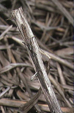 female Tetragnatha mandibulata from Okinawa.